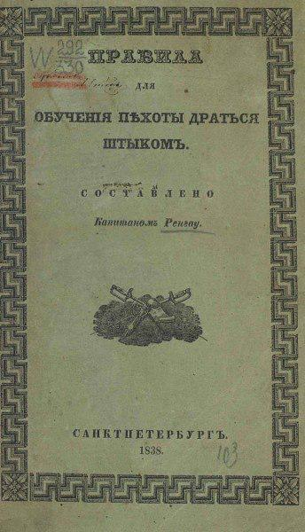 Обложка книги капитана Ренгау "Правила для обучения пехоты драться штыком", 1837 год